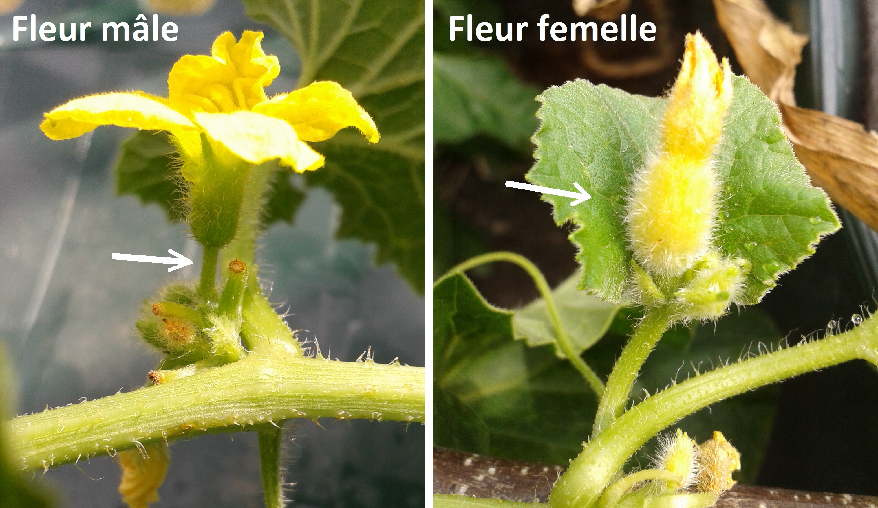 Male and female melon flowers